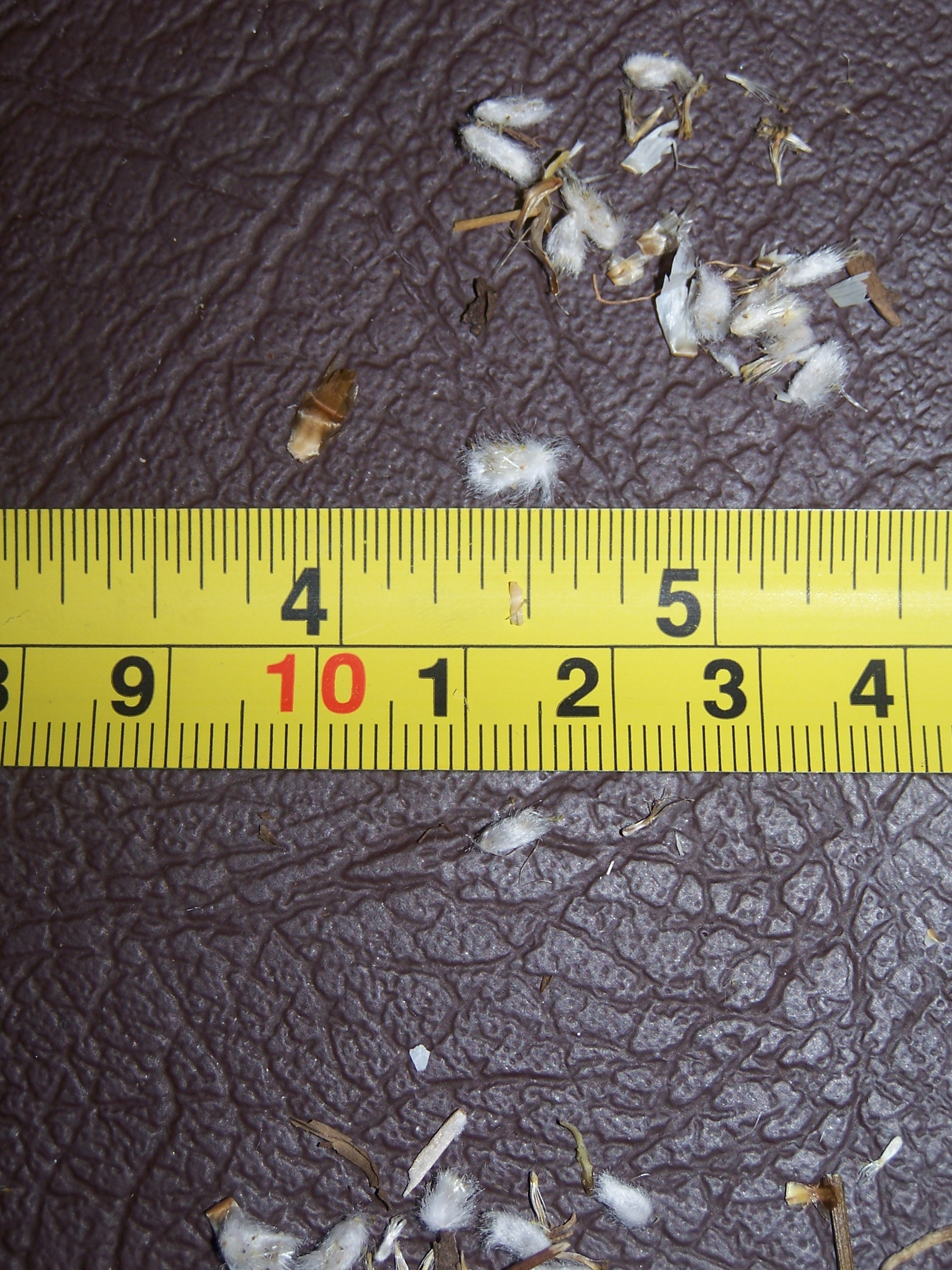 Seeds of the Everlasting plant (Helipterum floribundum DC.) , tape measures in both inch(top) and millimeters(bottom)